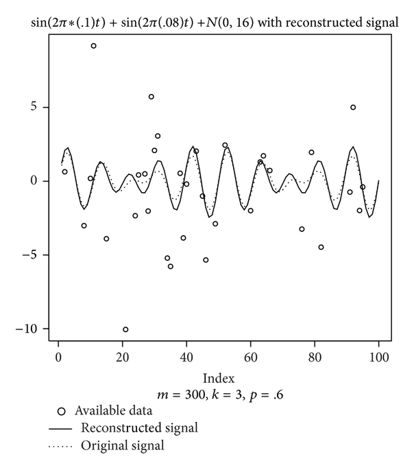 Kolmogorov-Zurbenko Fourier Transform (KZFT) Reconstruction of signal Kolmogorov–Zurbenko_filter